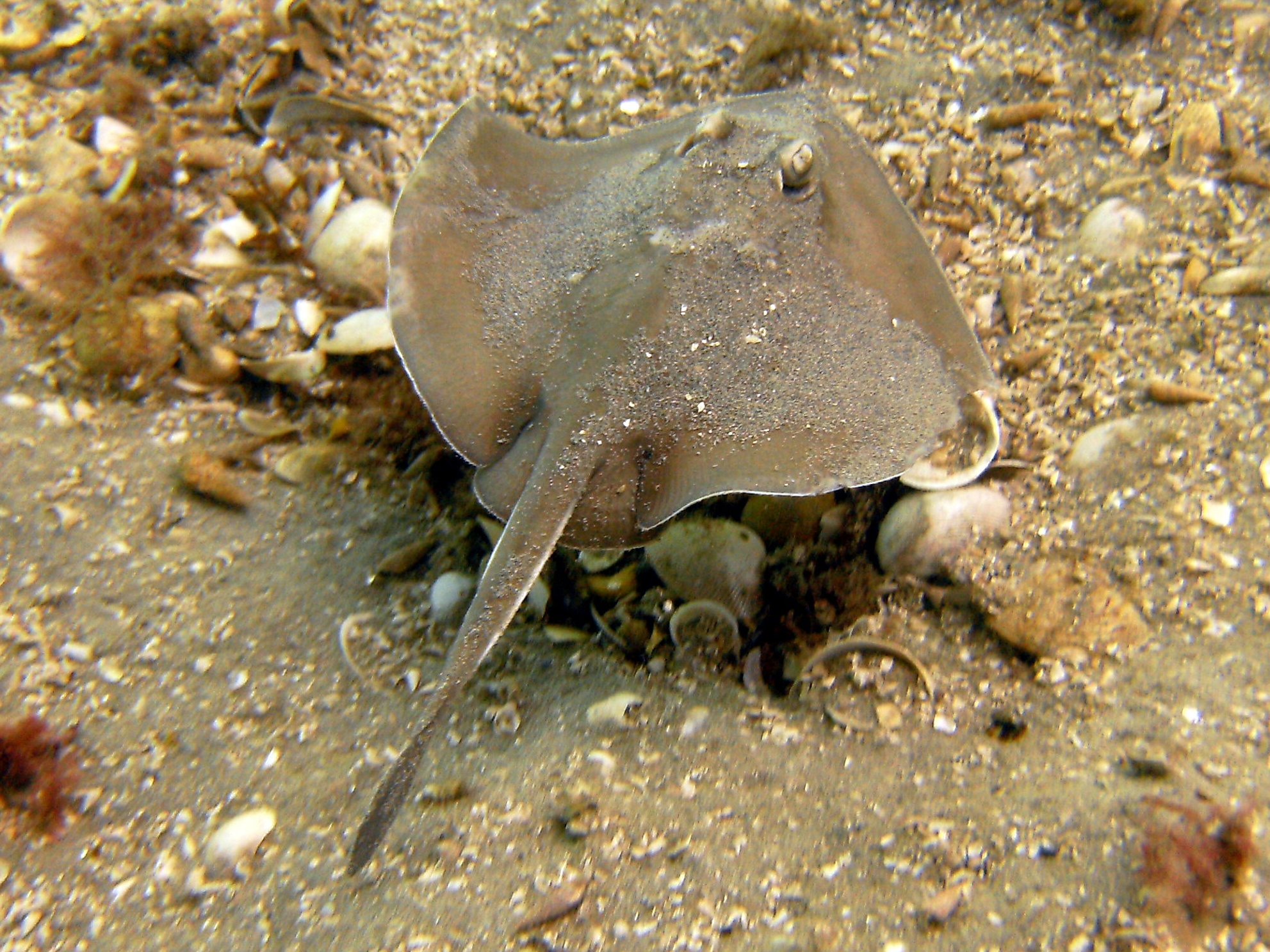 Sparsely-spotted stingaree (Urolophus paucimaculatus) off Port Phillip.